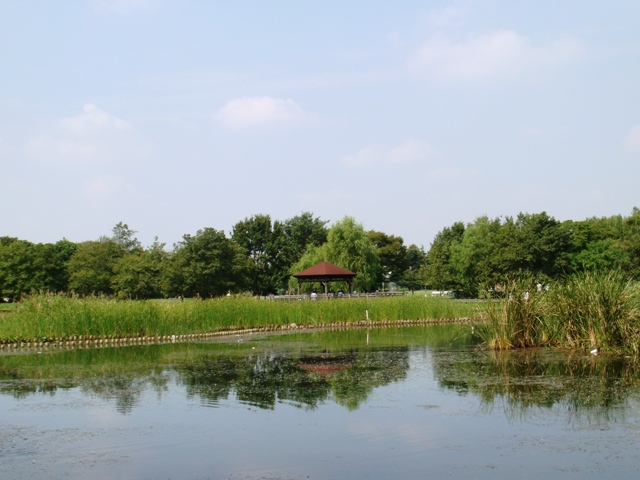 Toneri Park, Adachi